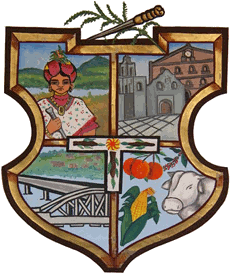 Seal of Tamazunchale, SLP, Mexico